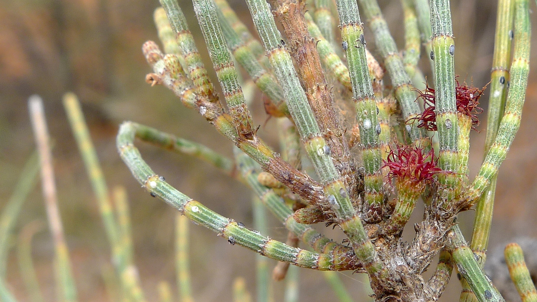 Belah, Casuarina pauper, female flowers. Kinchega National Park, NSW, Australia, November 2014.